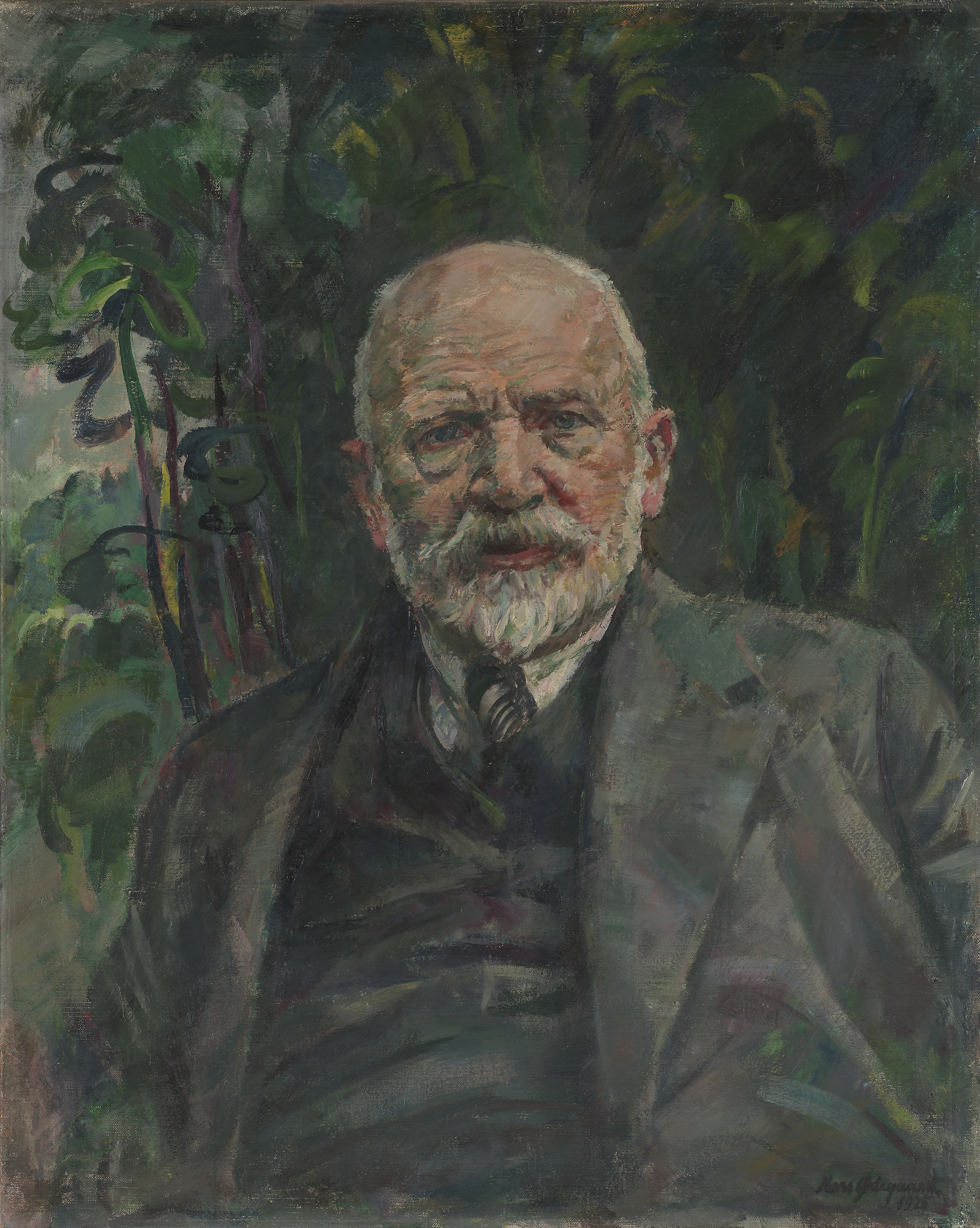 Dr. Alexander Malthe oil on canvas 75,5 x 60 cm signed b.r.: Hans Ødegaard / 1925